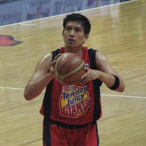 James Yap, the main man for Purefoods TJ Giants of the Philippine Basketball Association